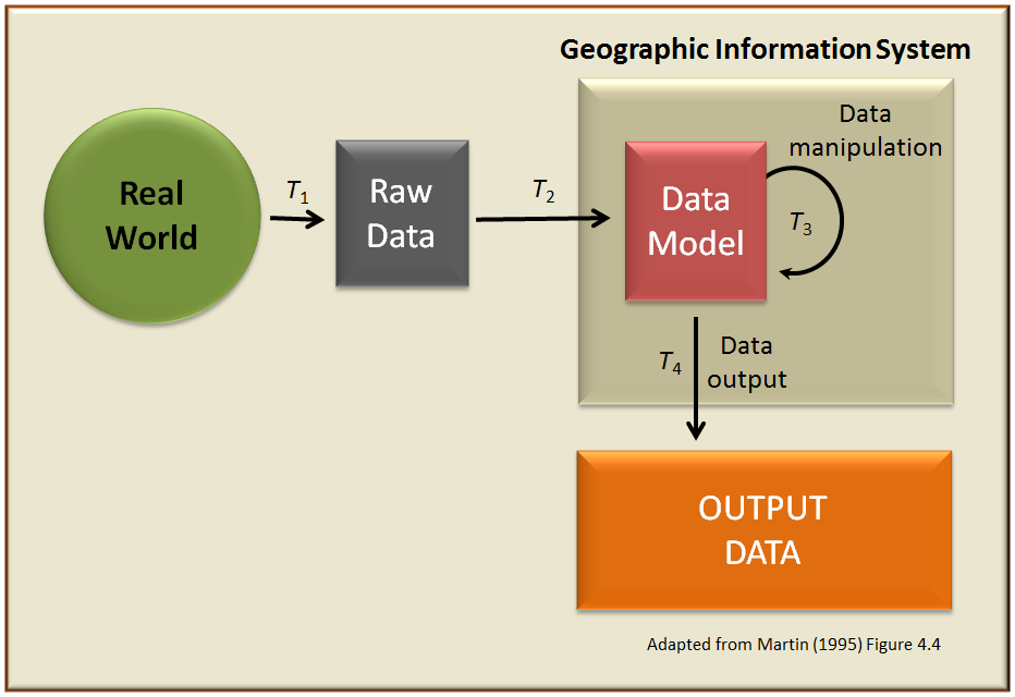 The schematic was adapted from Figure 4.4, A transformation based view of GIS operation, in Martin. D. (1995). Theories of GIS. In Geographic Information Systems and their Socioeconomic Applications. New York, Routledge.